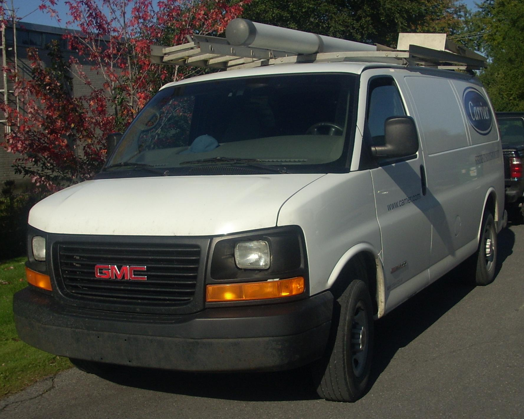 2003-present GMC Savana photographed in Montreal, Quebec, Canada.